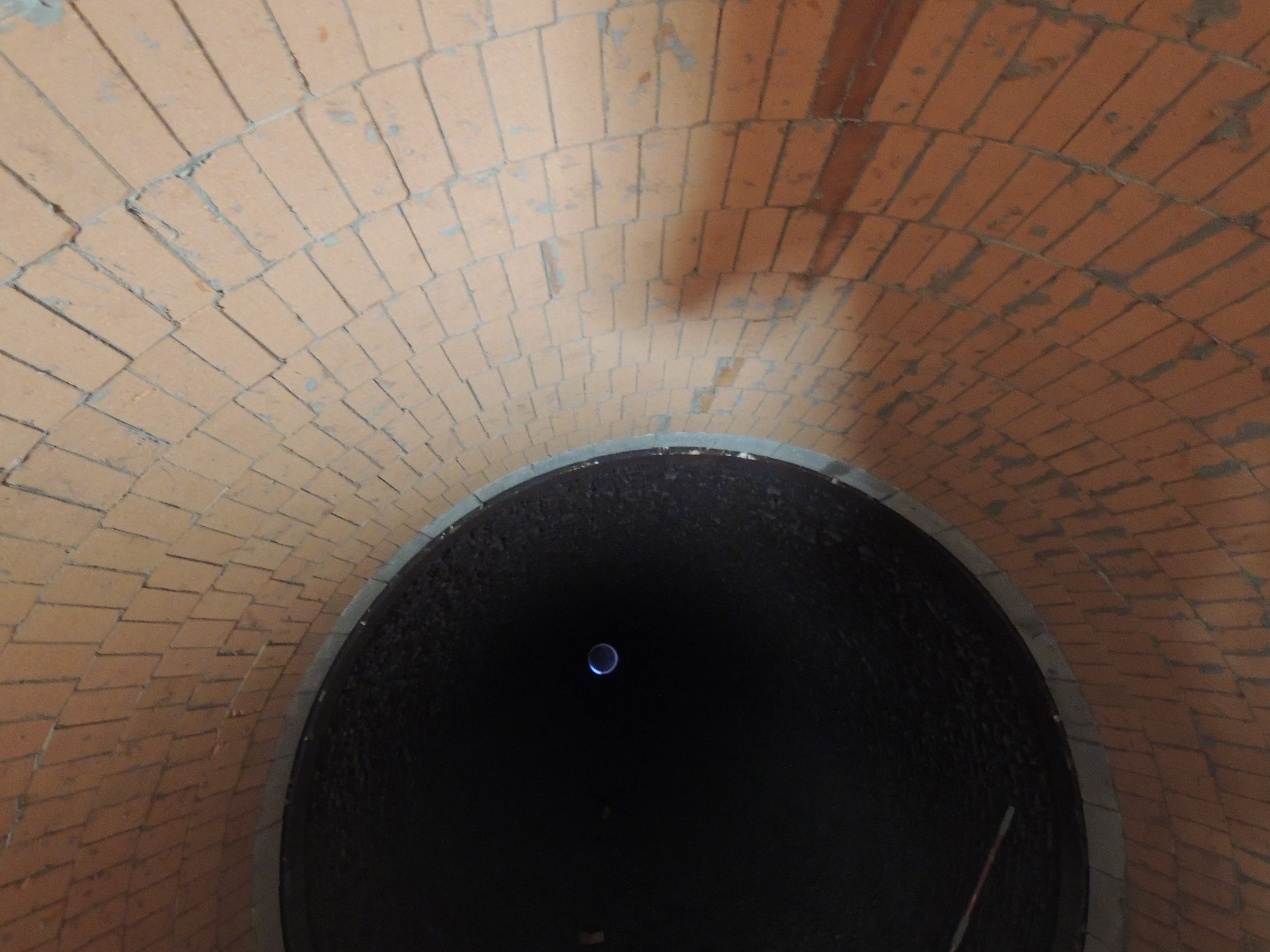 Moler bricks